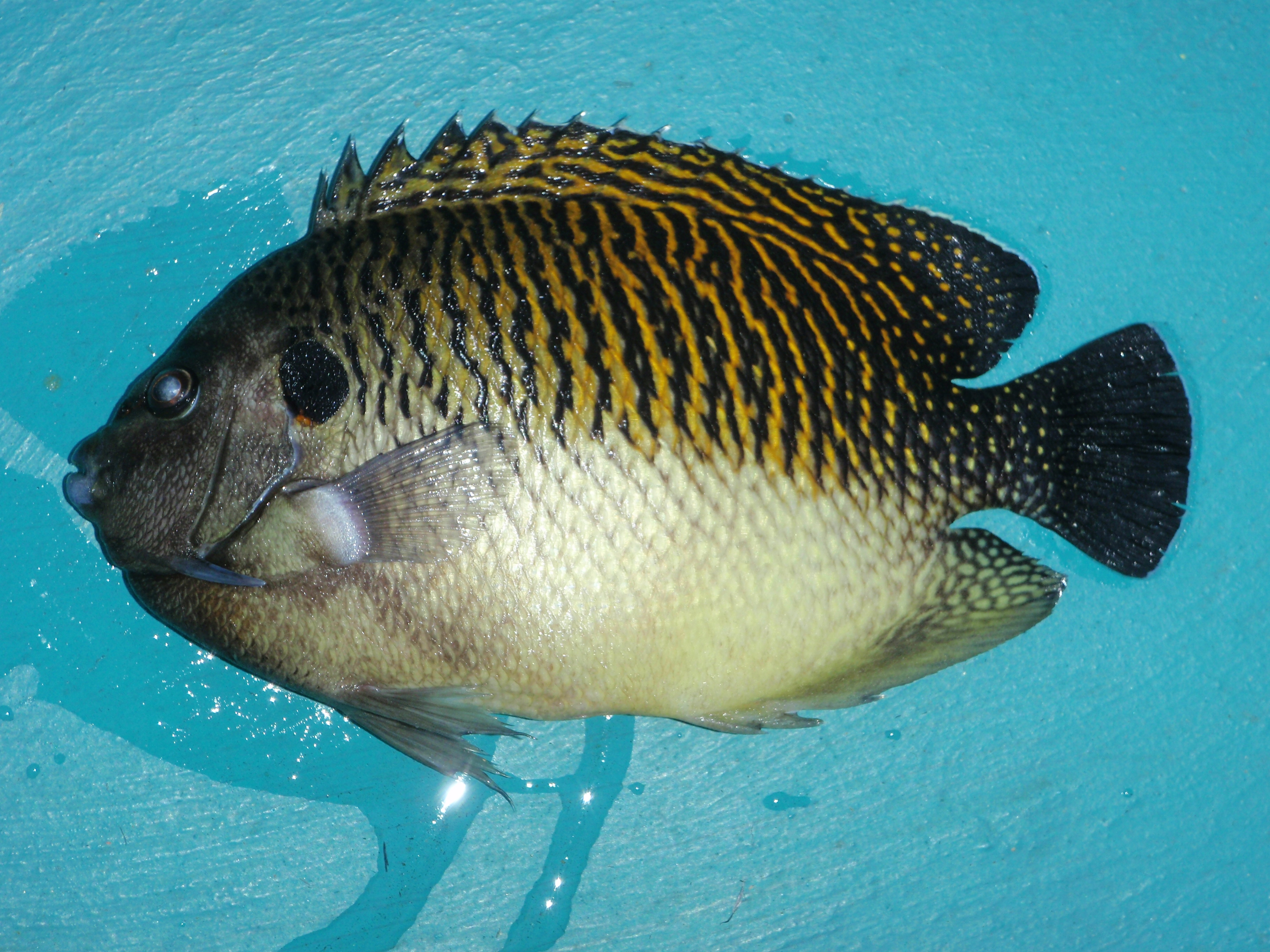 Barotrauma injury to tiger angelfish surfaced from 27m over about an hour